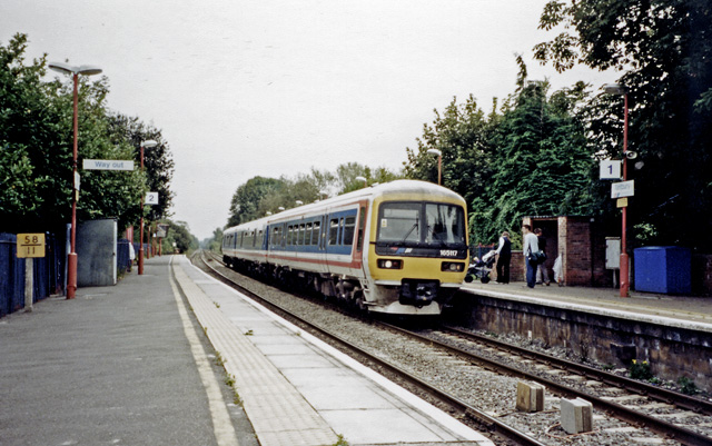 Kintbury Station, View eastward, towards Reading and London; ex-GWR Paddington - Reading - Westbury - Taunton - Penzance Main line. A Class 165/1 Network Turbo is stopping on a Paddington - Bedwyn service.